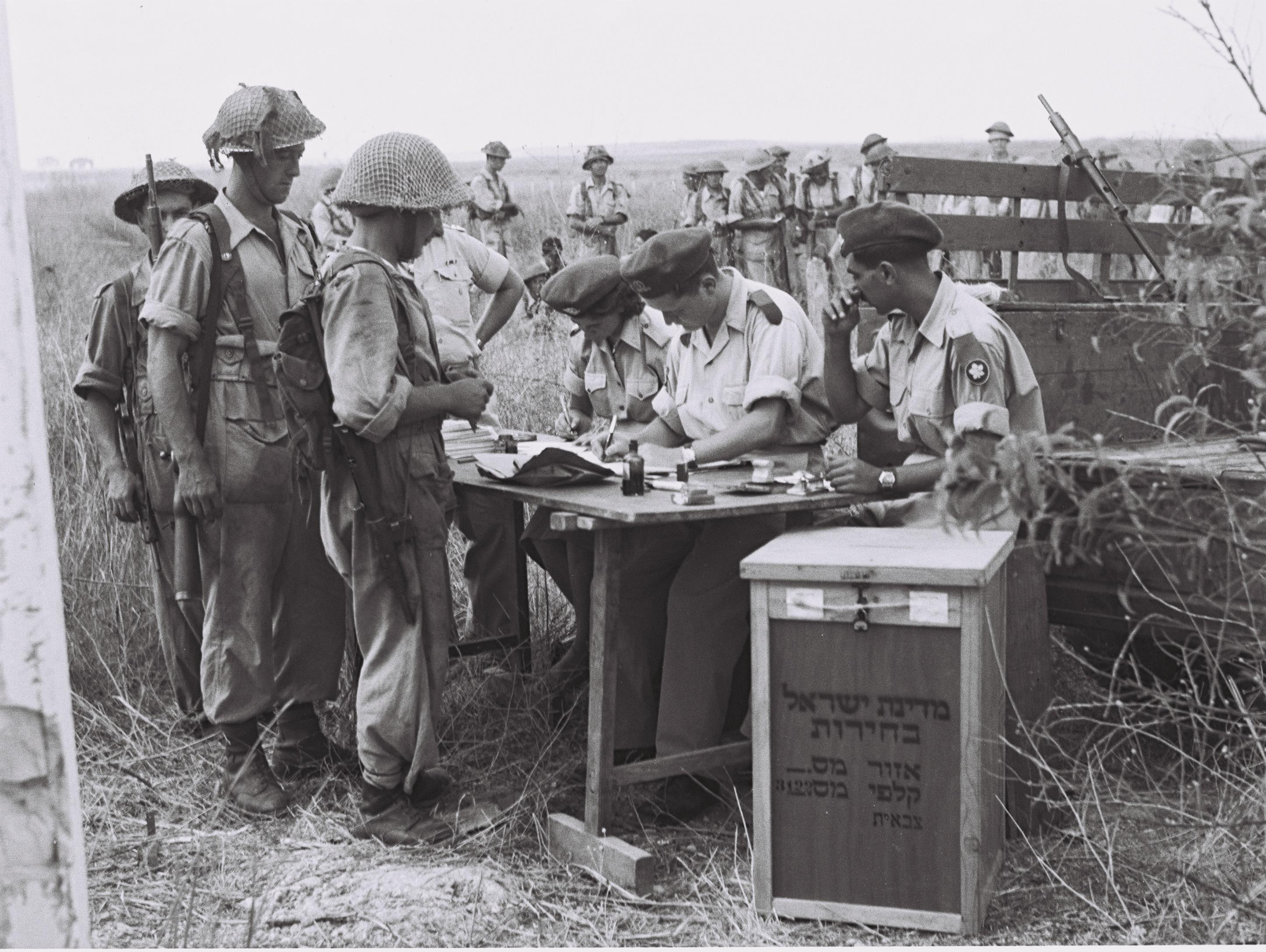 Original Description: POLLING STATIONS WERE SET UP IN THE FIELD FOR SOLDIERS ON DUTY.